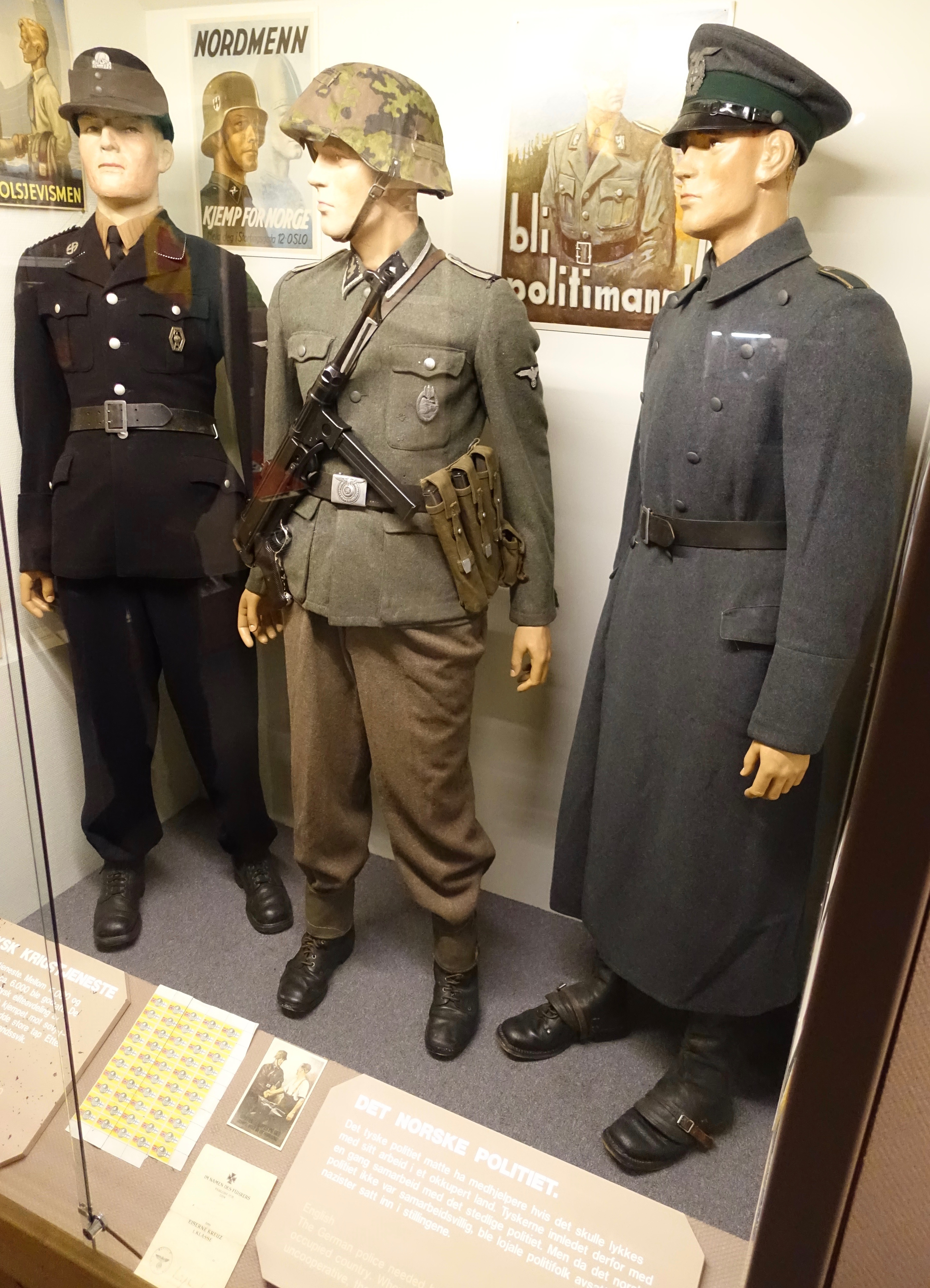 Norwegian and German Nazi uniforms of the Second World War: 1. German SS uniform for Norwegian volunteers in Germanske SS Norge (museum's photo here). The black "classic style" uniform of Germanske SS had one SS shoulder strap on the right shoulder and a circular swastika symbol instead of the SS runes on the right collar patch/tab. Thd members wore ski caps (skilue) instead of the visor caps, and a diamond shape patch on the left sleeve as a symbol of approval for the germanic SS by Himmler. The decoration on the chest is the Frontkjempermerket. 2. German Waffen-SS Unterscharführer uniform for Norwegian volunteers (frontkjemper, 'frontfighter') (museum's photo here). The machine gun is a German MP 40. 3. German inspired uniform of Statspolitiet (Nazi armed police forces of Norway 1941 – 1945) model 1942 (museum's photo here). The national emblem of Norway on the police cap badge is similar to the sun cross and eagle symbol of the Norwegian Nazi party Nasjonal Samling (NS) (the German Nazi Party also adapted the Parteiadler, their stylized version of the German imperial eagle with swastika, as Reichsadler, national symbol for Germany, 1935 – 1945). Also Nazi propaganda posters by illustrator Harald Damsleth, etc. Photo taken on March 20, 2019 at the exhibitions of Rustkammeret, the Norwegian Army and Restistance Museum at the Erkebispegården in Trondheim, Norway. Uniform of the germanske SS Norge (right)